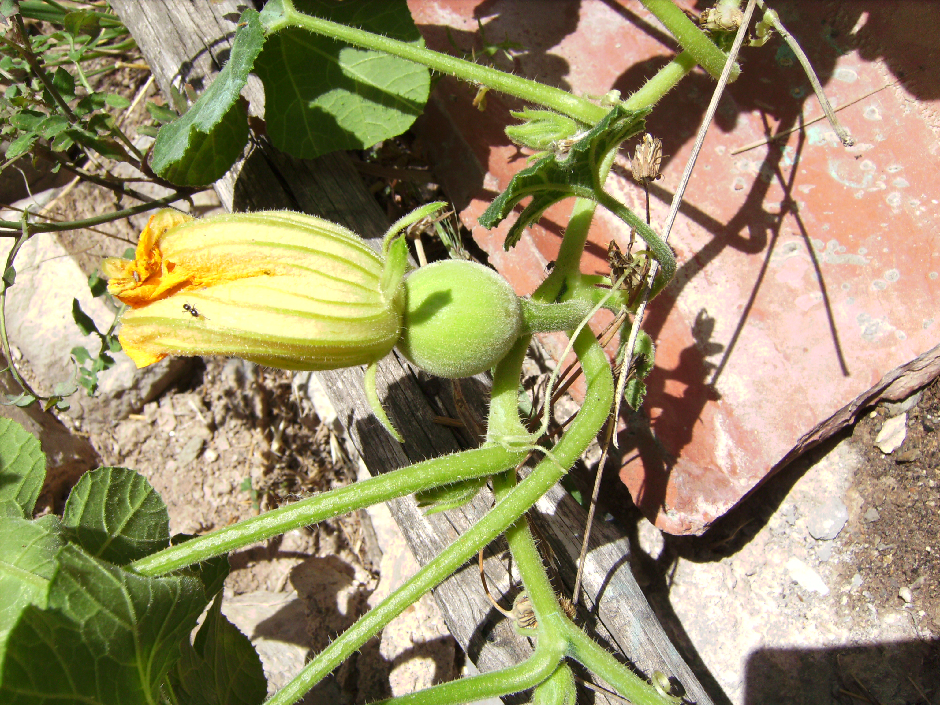 Cucurbita ficifolia female flower, Castelltallat, Catalonia